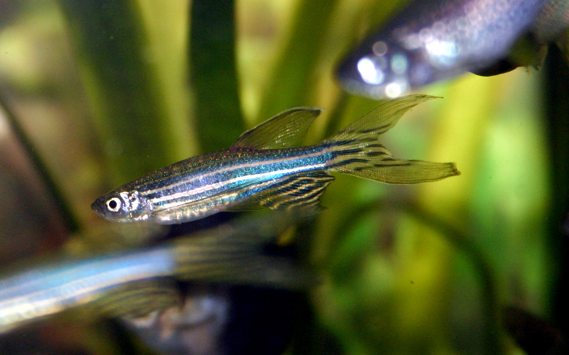 A female specimen of a zebrafish (Danio rerio) breed with fantails